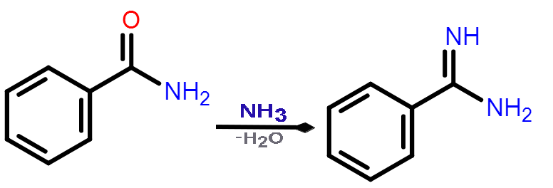 Benzamidine synthesis